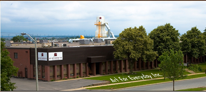 The Art For Everyday Factory in Canarctic Drive, Toronto